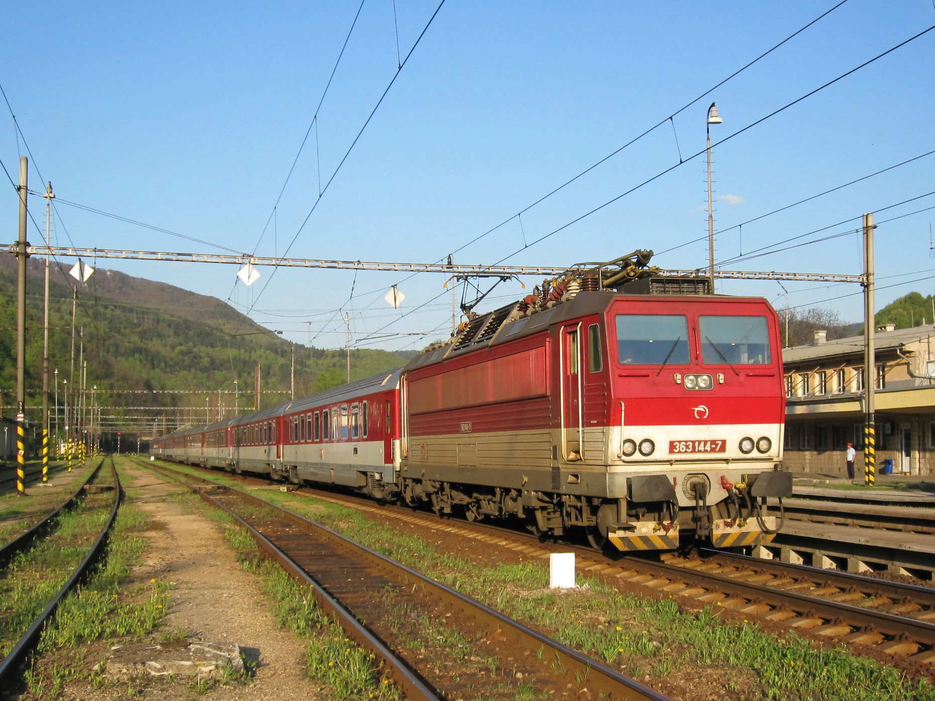 Slovakia Trip - April/May 2012: Day Two The mainline from Bratislava through to Košice sees a good frequency of passenger trains. Running roughly on a 2-hourly interval are the fast trains (category R) stopping at principle stations. These are generally worked by the dual-voltage class 362s or 363s switching currents at Púchov. Again dating back to Czechoslovakia days, as a result the fleet of 120 of this class were built by Škoda. Later on, a further 16 were re-built from single voltage class 162s. So, as expected, the fleet is divided across both railways and are equally found on cross-border trains. Seen here on the evening of 30 April 2012, 363.144 is heading train R612, 16:07 Košice to Bratislava hl.st. during its stop at Kraľovany.